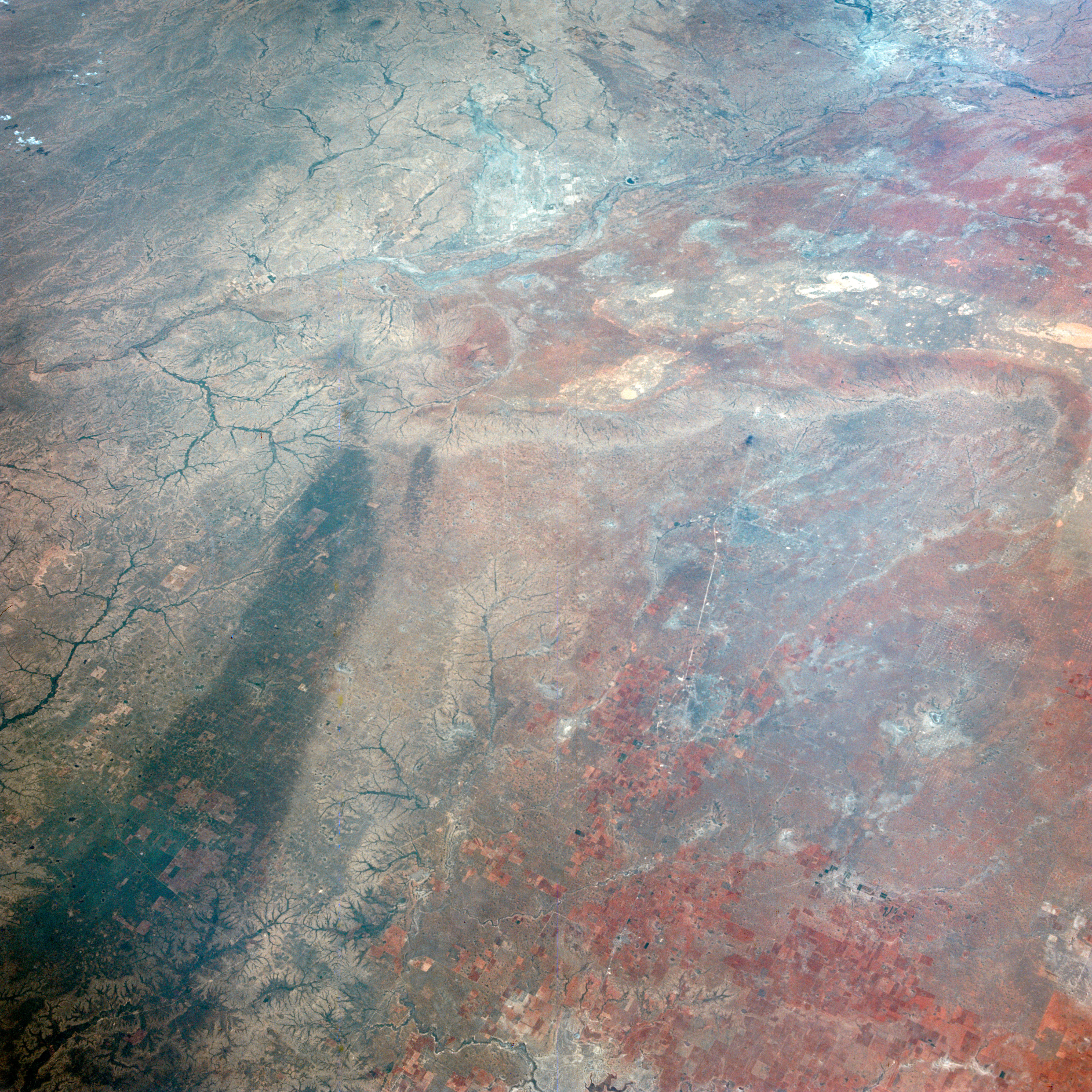 This image of Texas, obtained by astronauts aboard NASA's Gemini 4 spacecraft on June 5, 1965, shows a large dark swath attributed to rainfall. The dark areas correspond to regions that received more than 1 inch of rain in the days before the image was obtained. The large swath is about 16 kilometers across near the western (left) end.